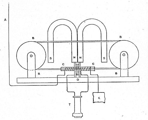 Marconi magnetic detector scheme. From the book "A Handbook of Wireless Telegraphy" (1913) by J. Erskine-Murray. D.Sc.